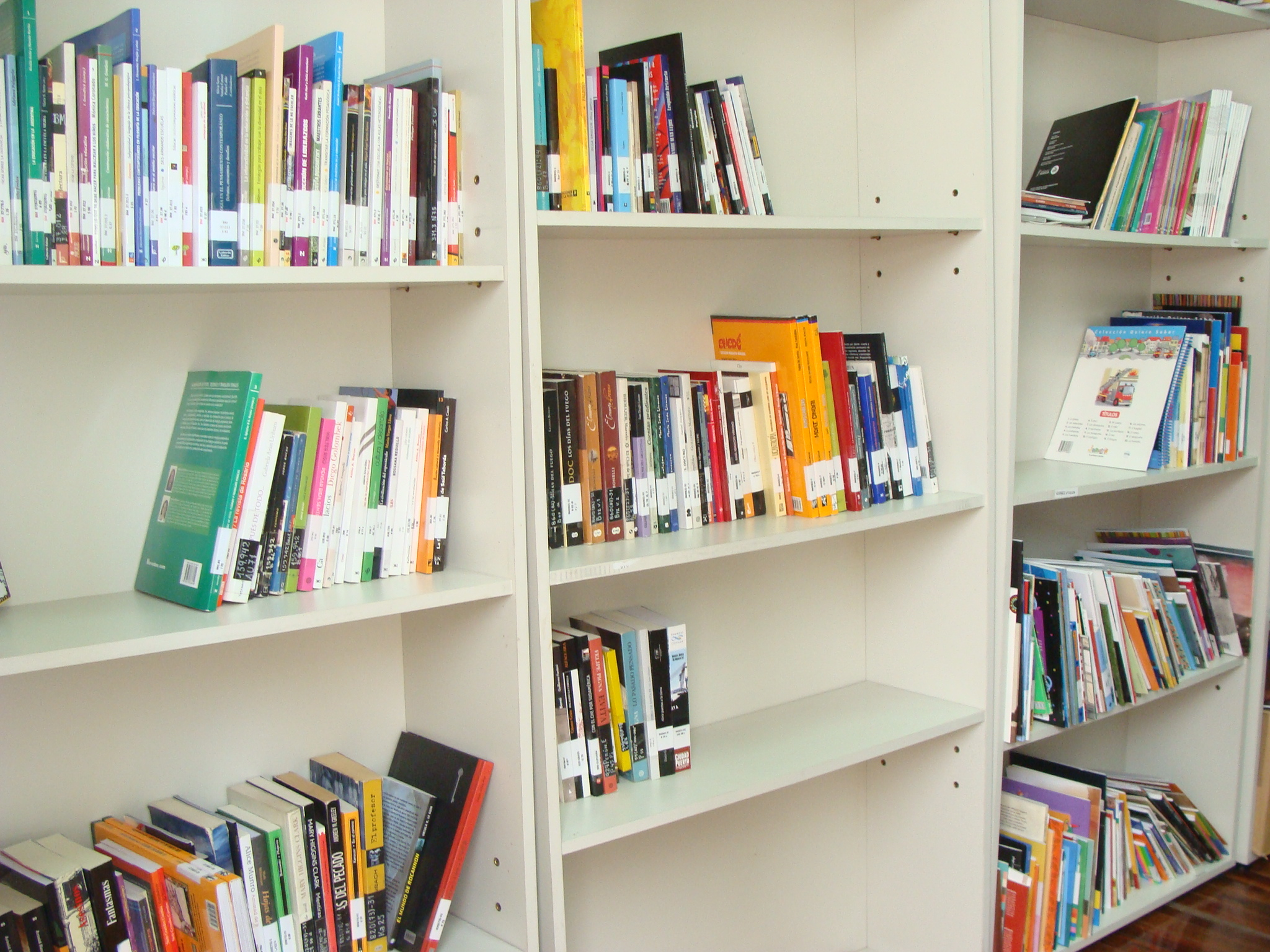 Colección en Zona de Aprendizajes